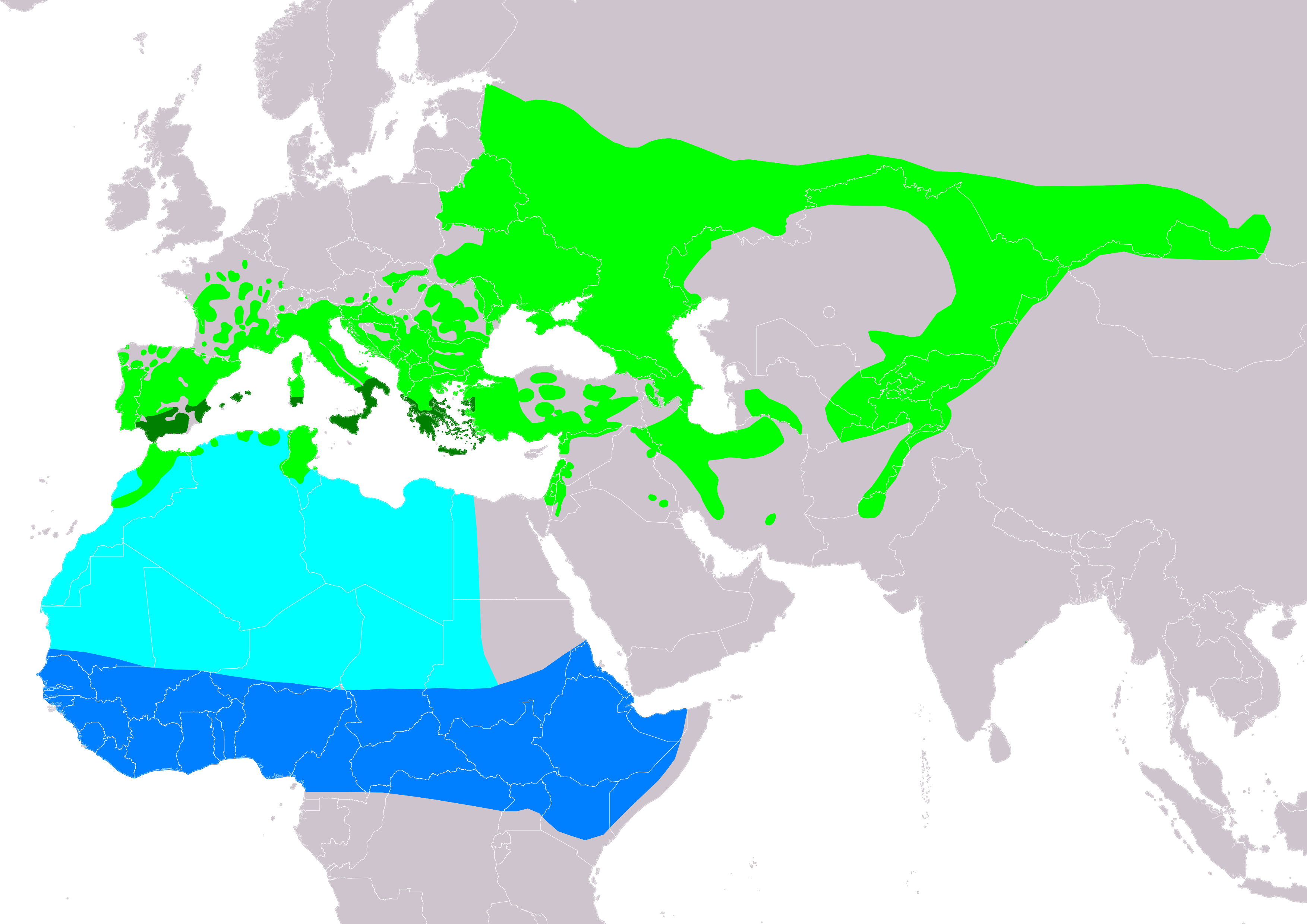 Distribution map of Eurasian Scops-owl (Otus scops) according to IUCN version 2019.3; key: Legend: Extant, breeding (#00FF00), Extant, resident (#008000), Extant, passage (#00FFFF), Extant, non-breeding (#007FFF)